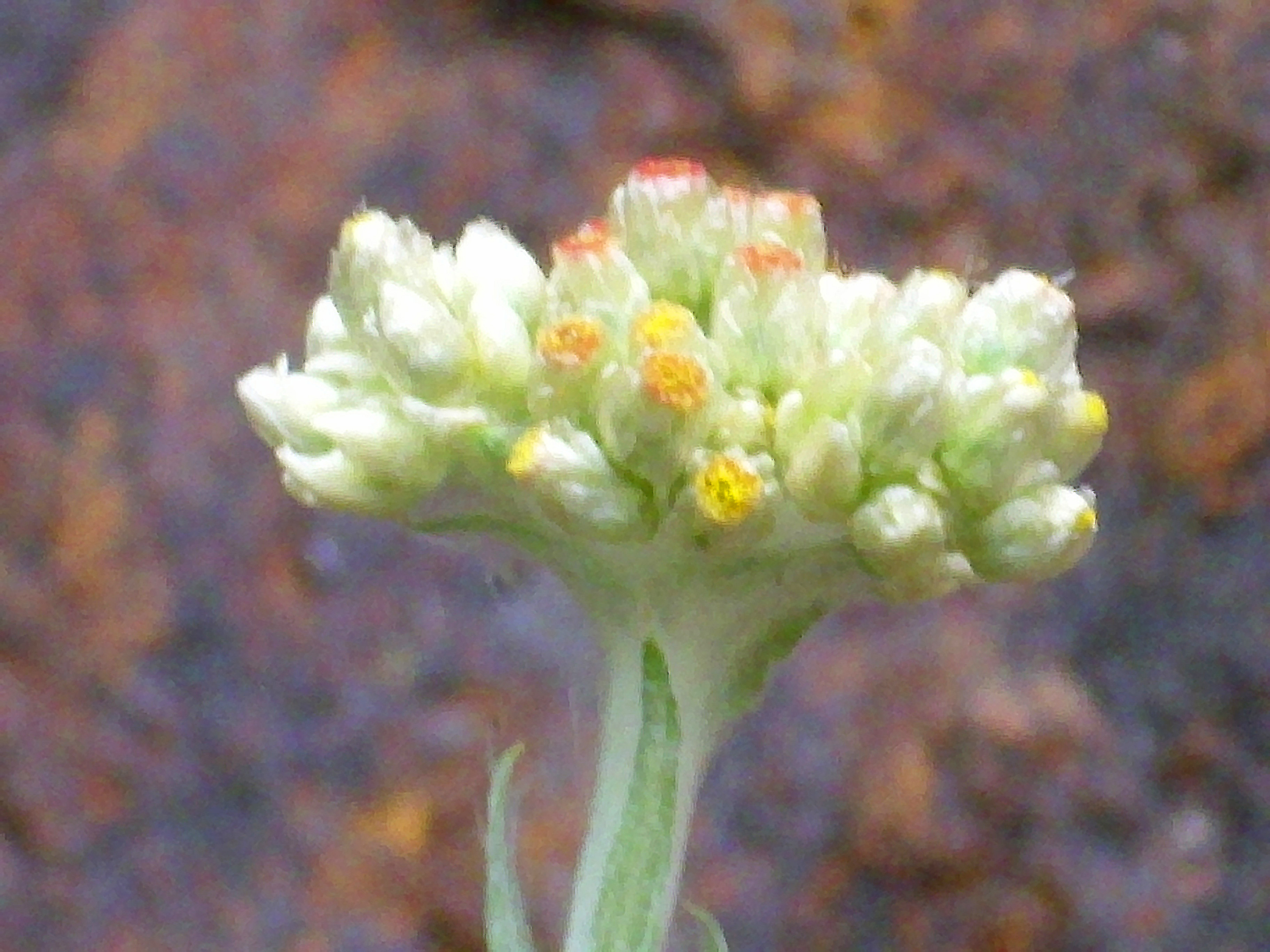 Gnaphalium luteo-album inflorescence close up, Sierra Madrona, Ciudad Real, Spain